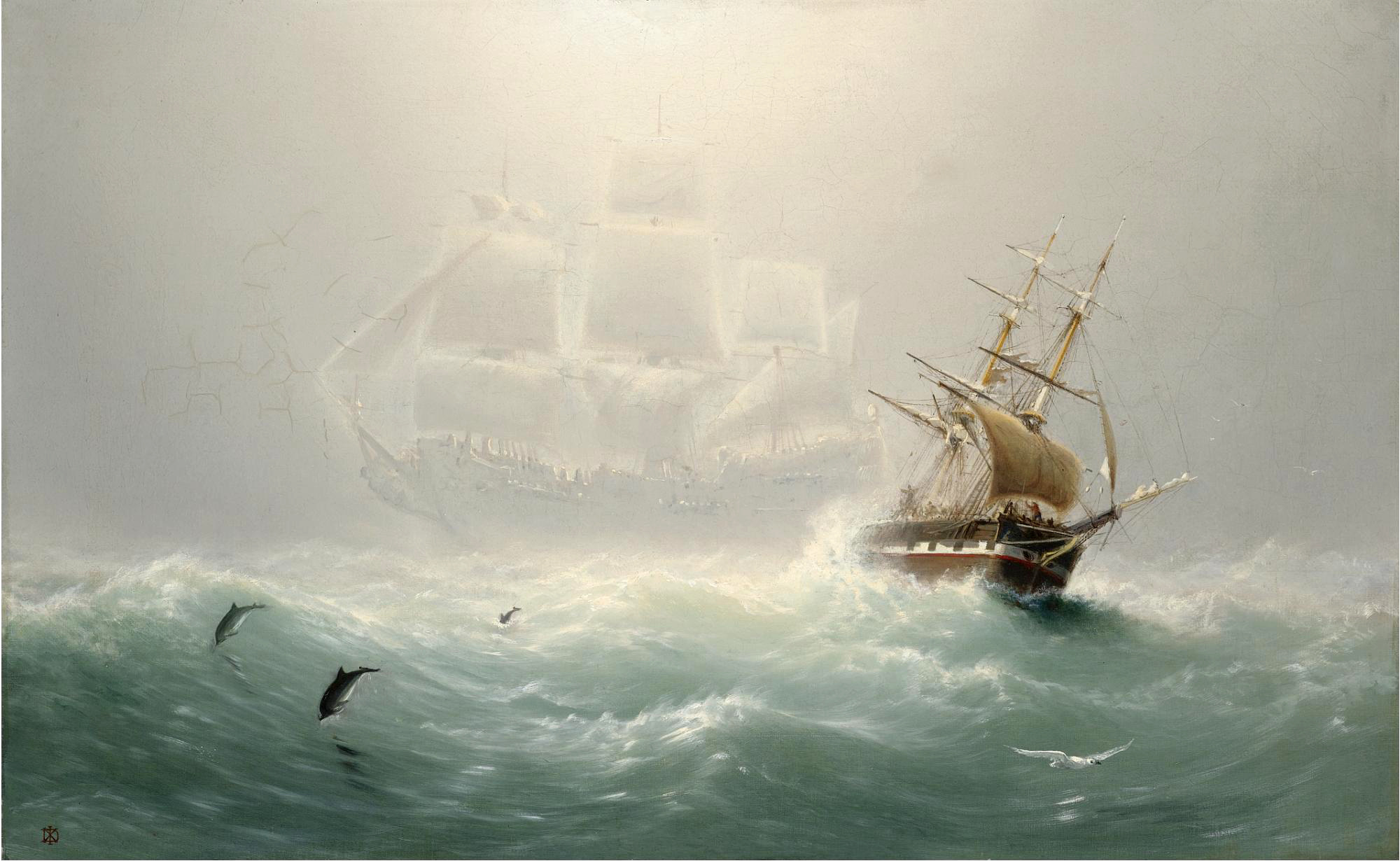 Painting of the Flying Dutchman